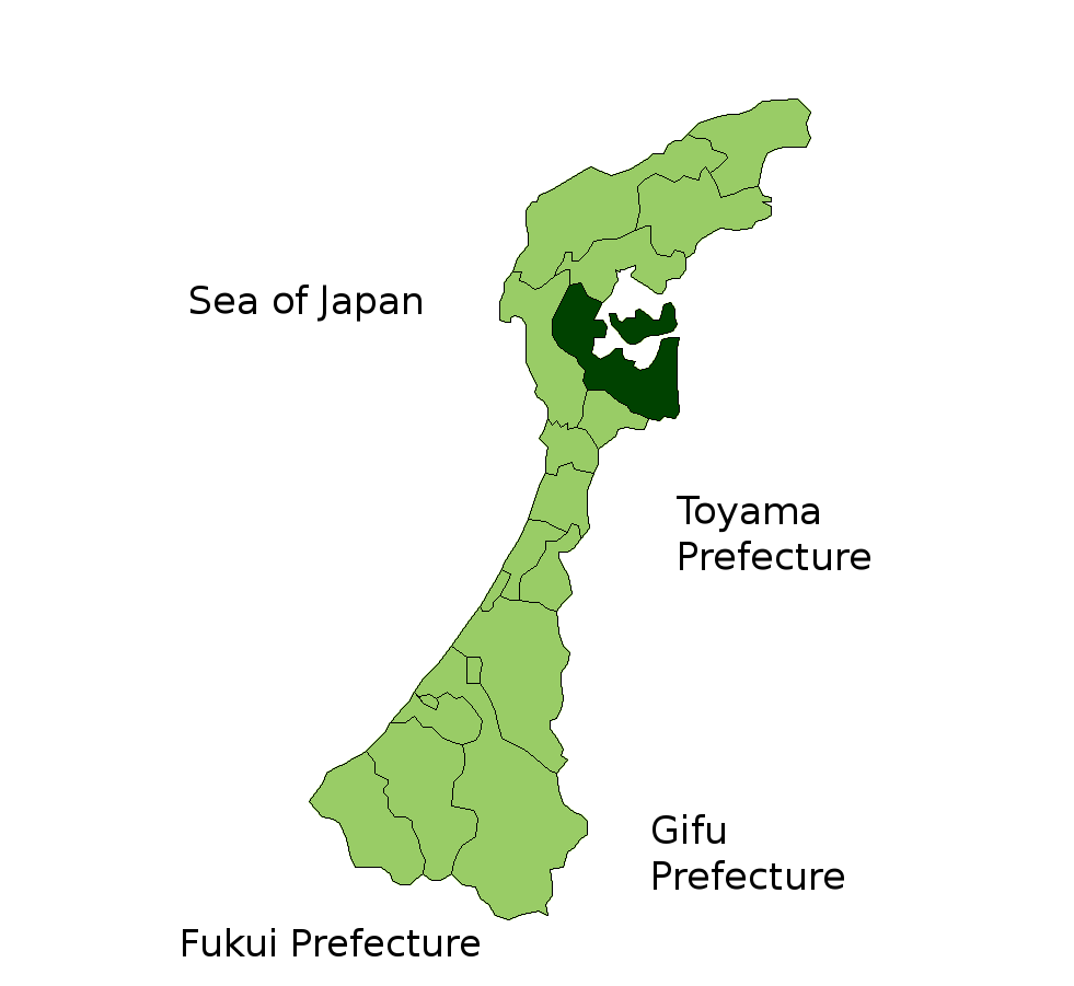 Location Map of Nanao in Ishikawa Prefecture, Japan